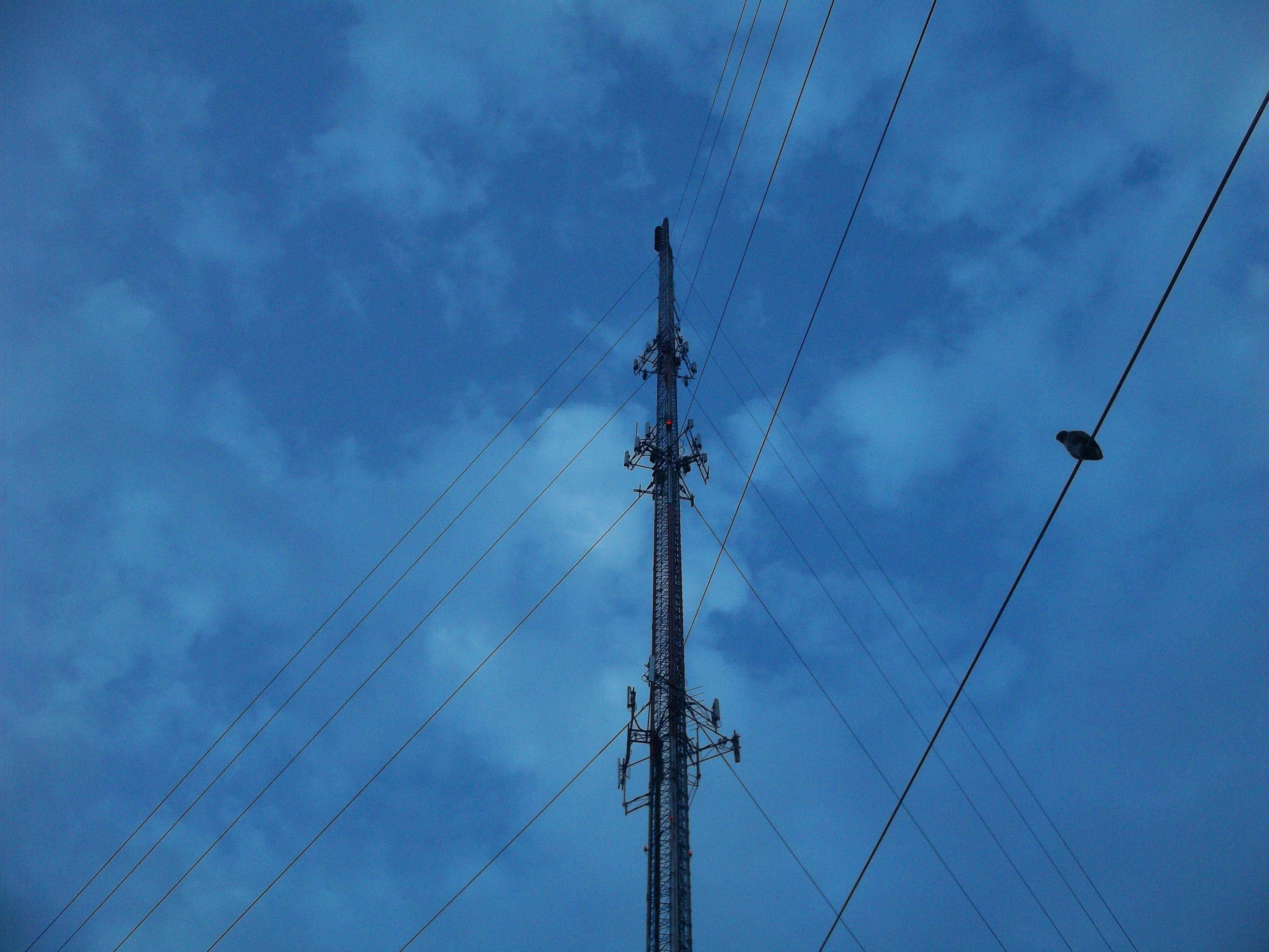 a nearly full view of the WCIB transmitter in Falmouth MA